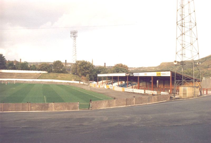 This is an image of the Family Stand at the Shay from 1992, before it was demolished to make way for the new East Stand.